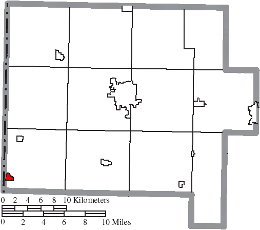 Map of the municipal and township boundaries of Van Wert County, Ohio, United States, as of the 2000 census, with the location of the village of Willshire highlighted. Township borders are shown only in unincorporated areas in order to differentiate incorporated and unincorporated areas more clearly.